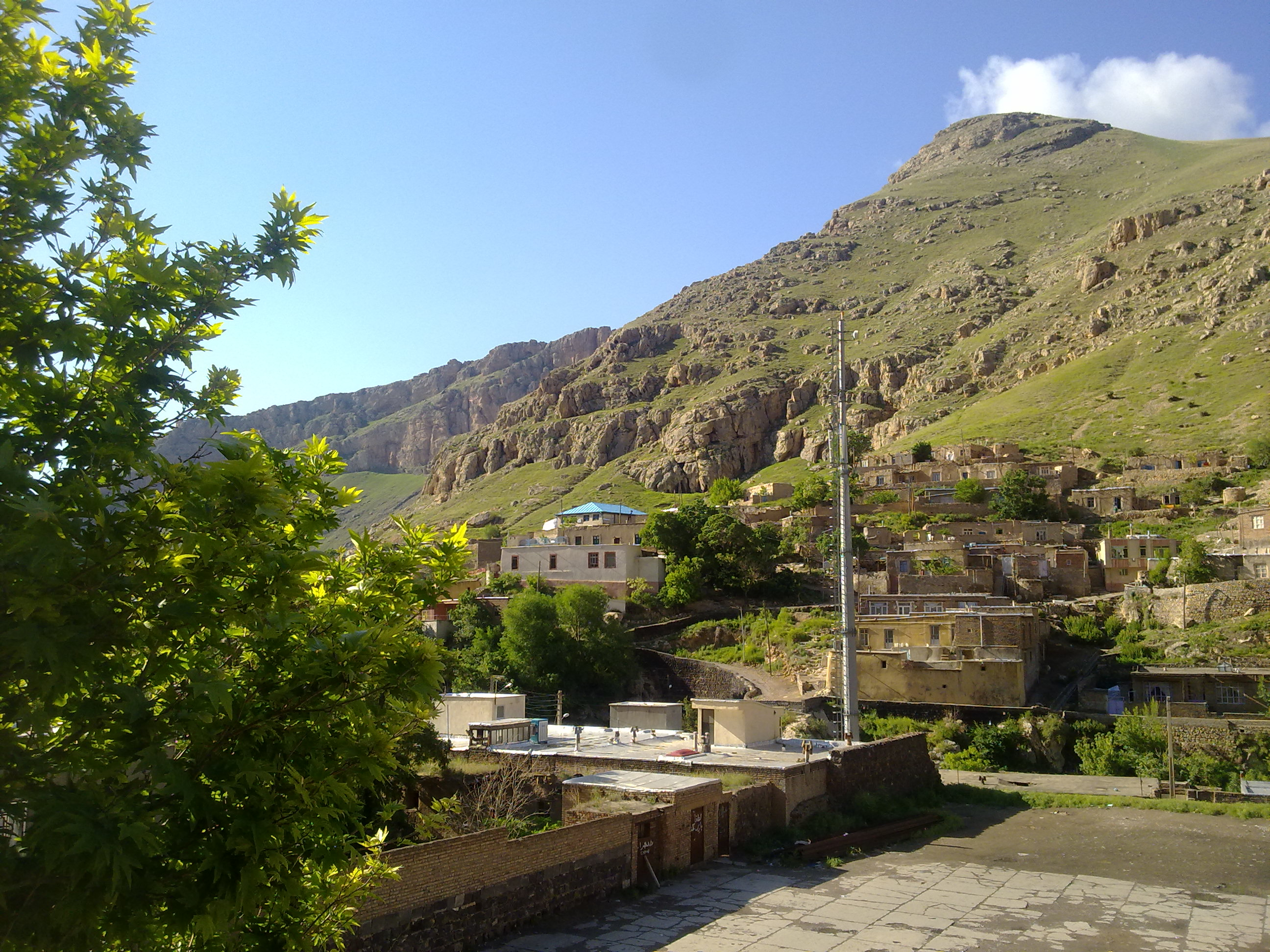 Maku-West Azarbayjan- IRAN